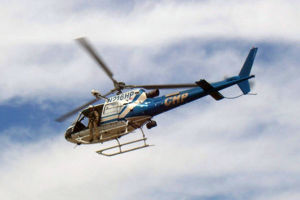 A Helicopter from the California Highway Patrol.